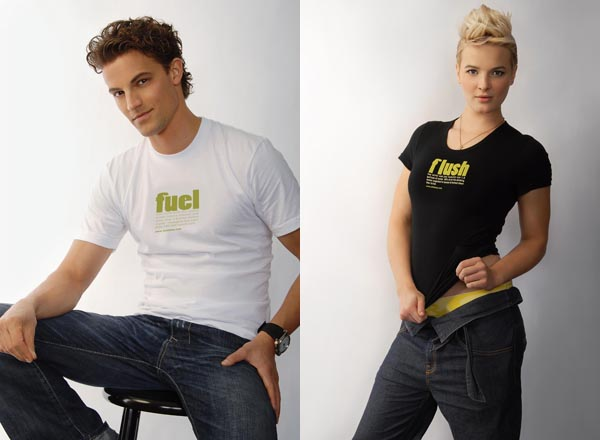 Two models wearing recycled plastic T-shirts made by the "A Lot to Say" company.